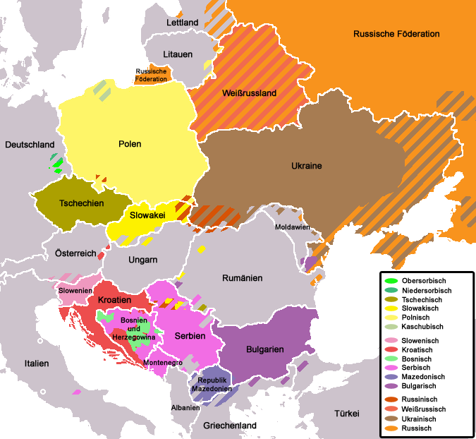 Map of Slavic language in German.